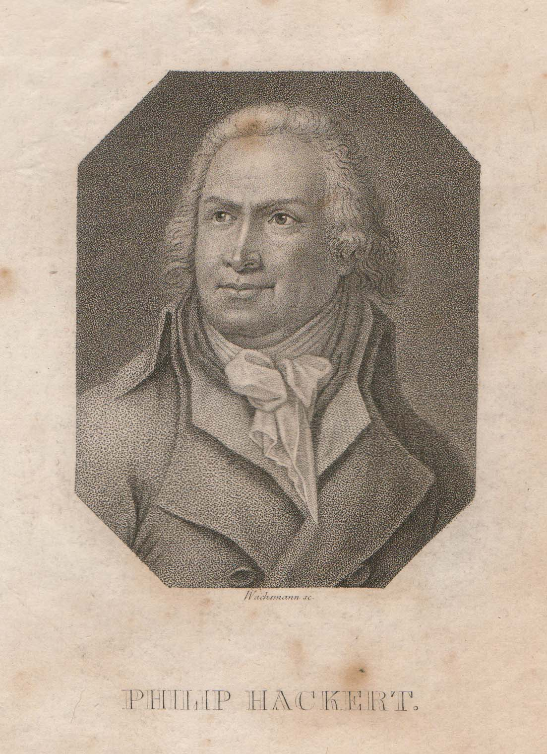 Portrait of J. Ph. Hackert